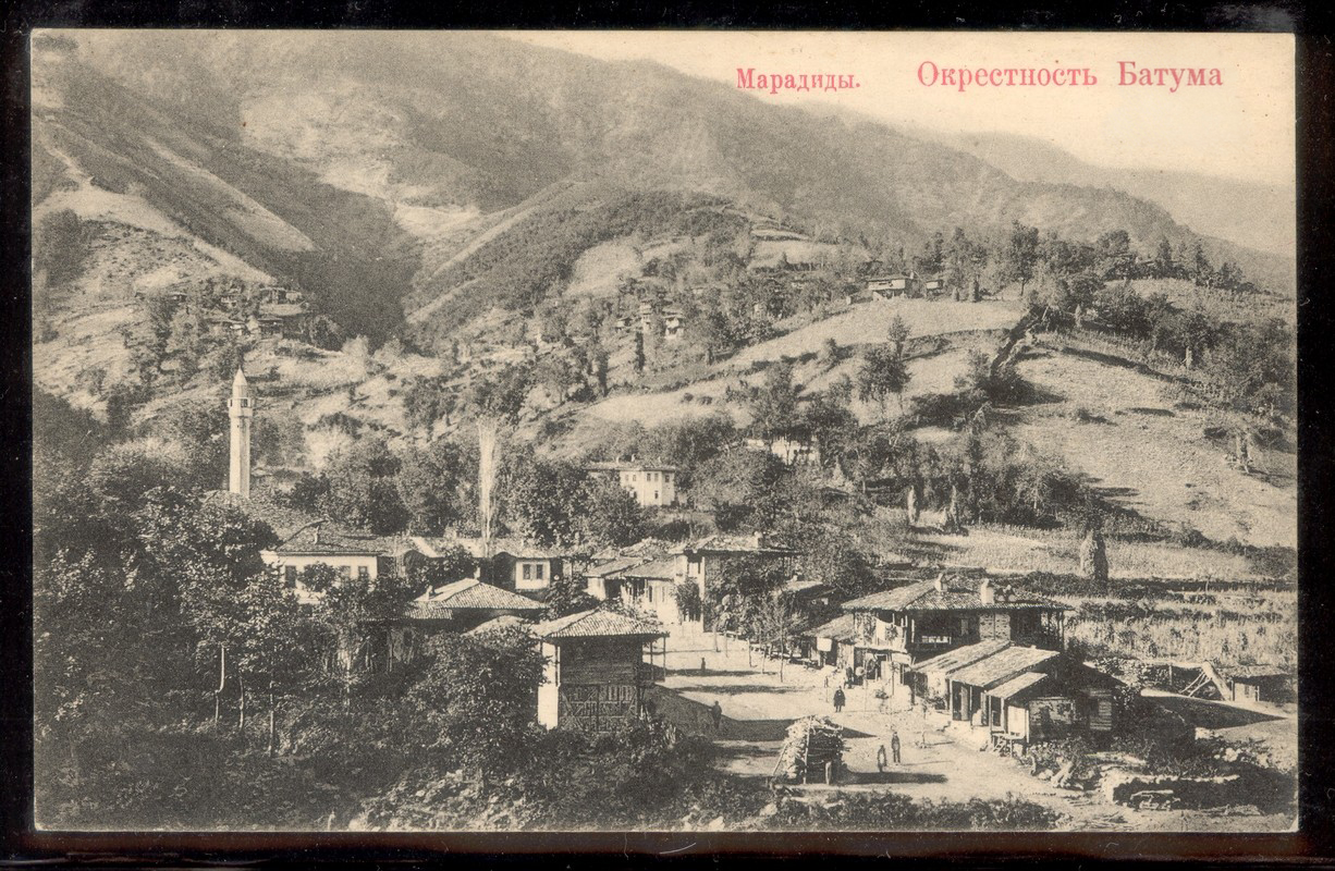 Village of Maradidi. This village divided between Turkey and Georgia.